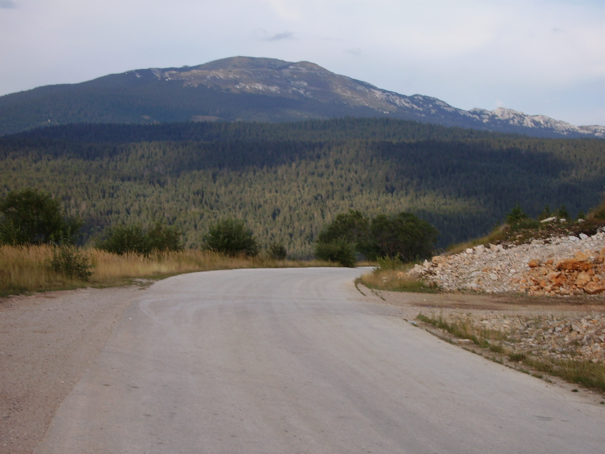 The Klekovača mountains in Bosnia seen from the West.